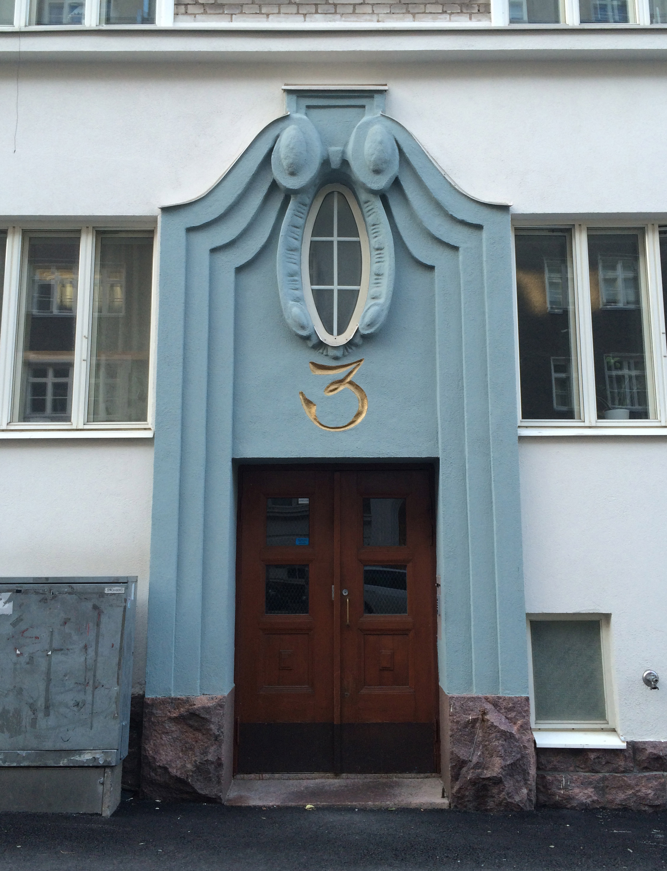 Entrance to Freesenkatu 3, Helsinki. The building was designed by Leuto A. Pajunen and completed in 1919.